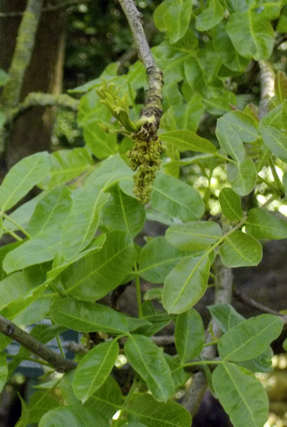 Males flowers of the Pistachio, historical tree (sexuality of plants), jardin alpin of the Jardin des plantes of the Muséum national d’histoire naturelle, Paris, 22nd April 2011 ; 72dpi 20.2 × 30cm.